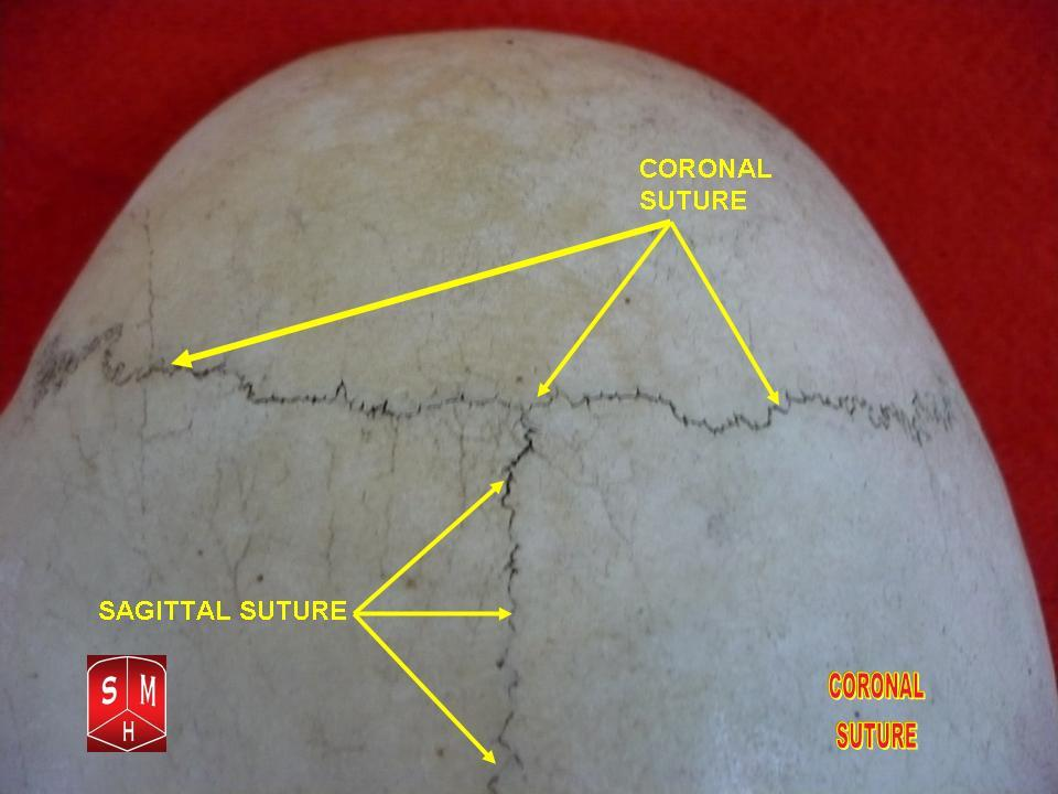 Anatomical piece